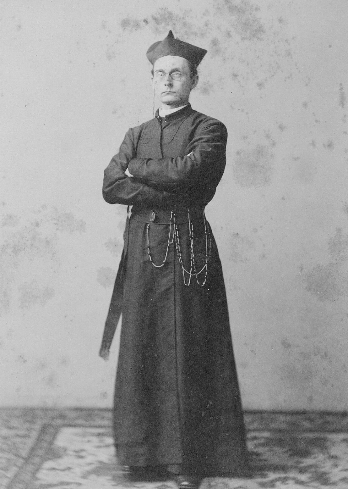 Portrait of Joseph Havens Richards, president of Georgetown University in 1890